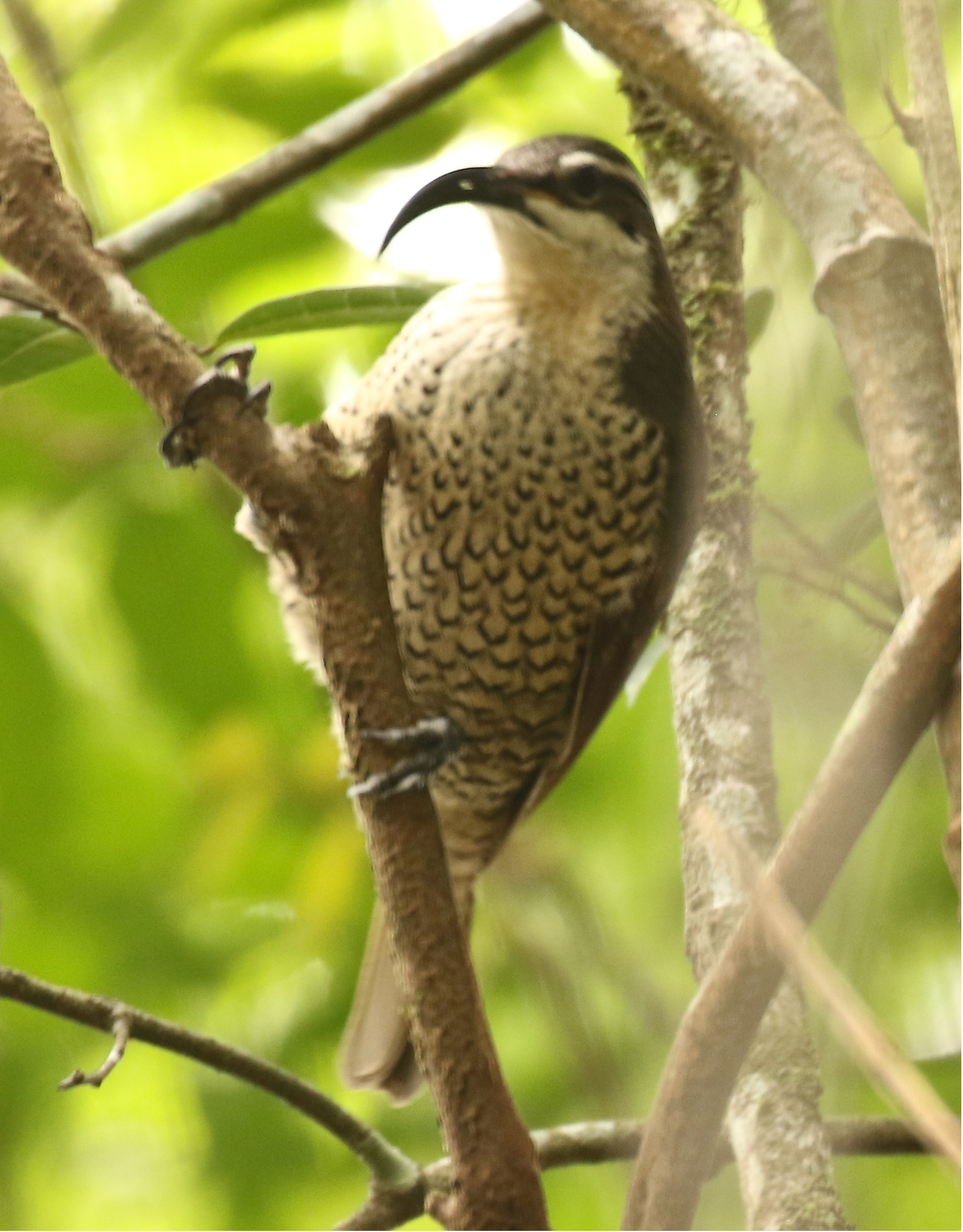 female - Laminington Nat'l Park- Australia